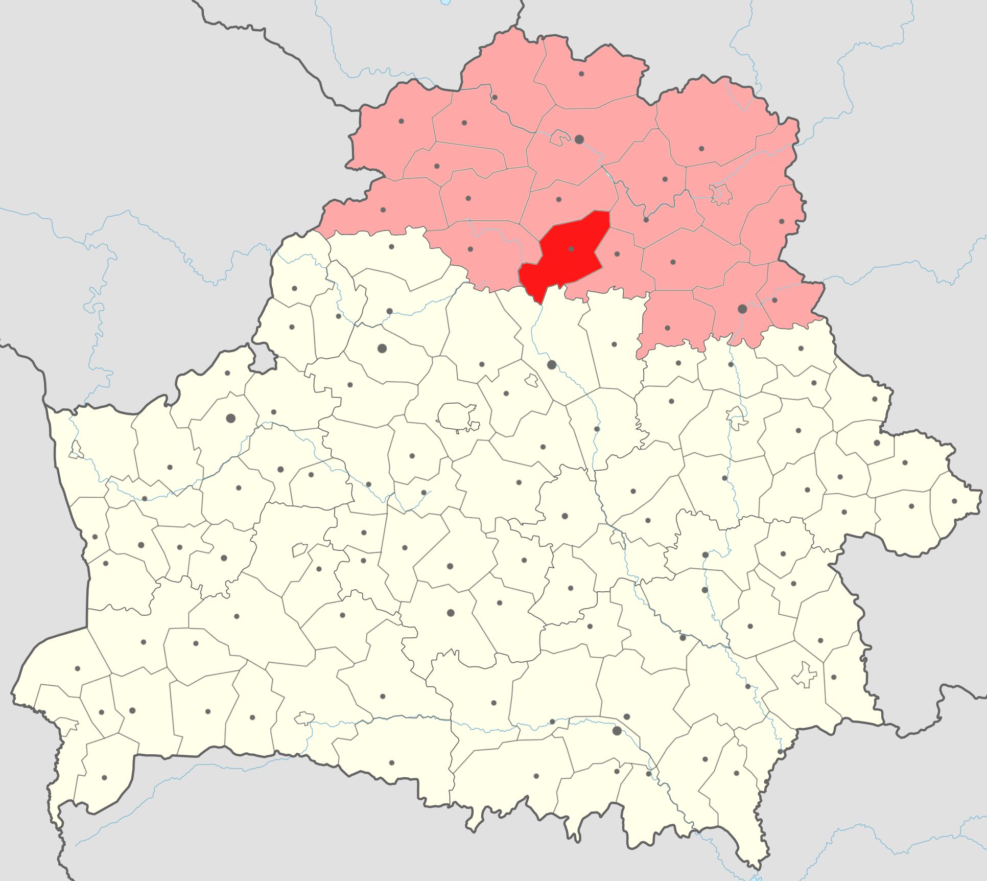 Map of Liepieĺski raion (in red) with Viciebskaja voblast' (in light red) on the map of Belarus.